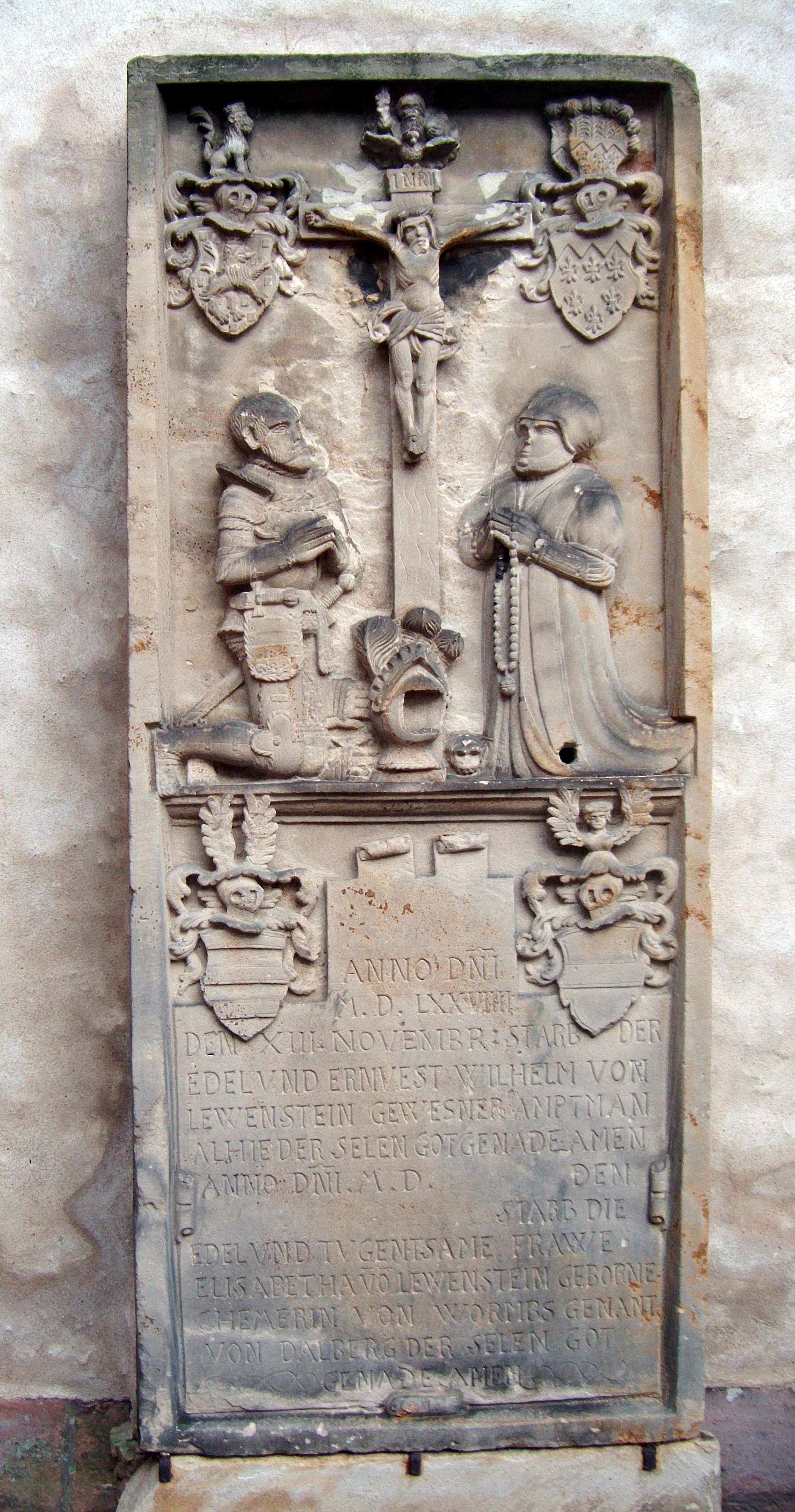 Grabstein des Wilhelm von Löwenstein († 1579), Pfarrkirche St. Ulrich, Deidesheim